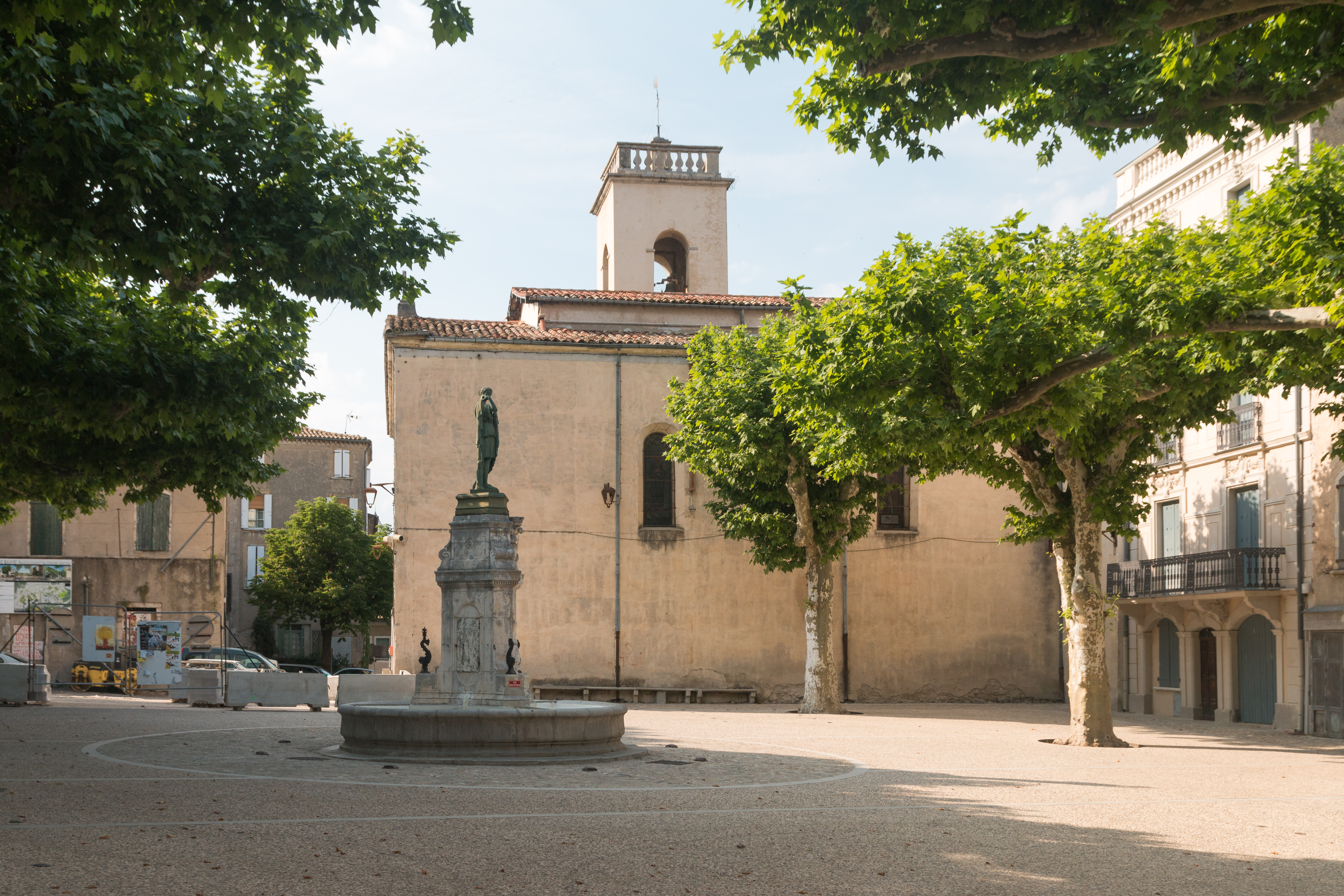 John Astruc square..